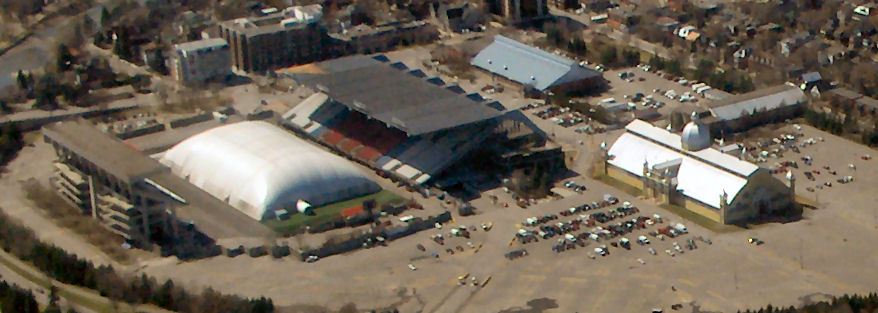 Aerial view of Lansdowne Park in Ottawa, Ontario, Canada